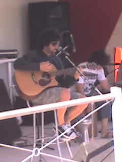 Photo of Iván Noble